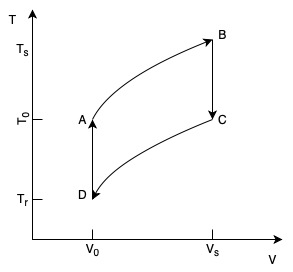 This work represent the thermodynamic cycle (T-V) of the rubber band experiment, In which from A to B the rubber band is stretched, from B to C it's held in tension until it cools to room temp. From C to D the tension is released, from D to A the rubber band warms to room temp